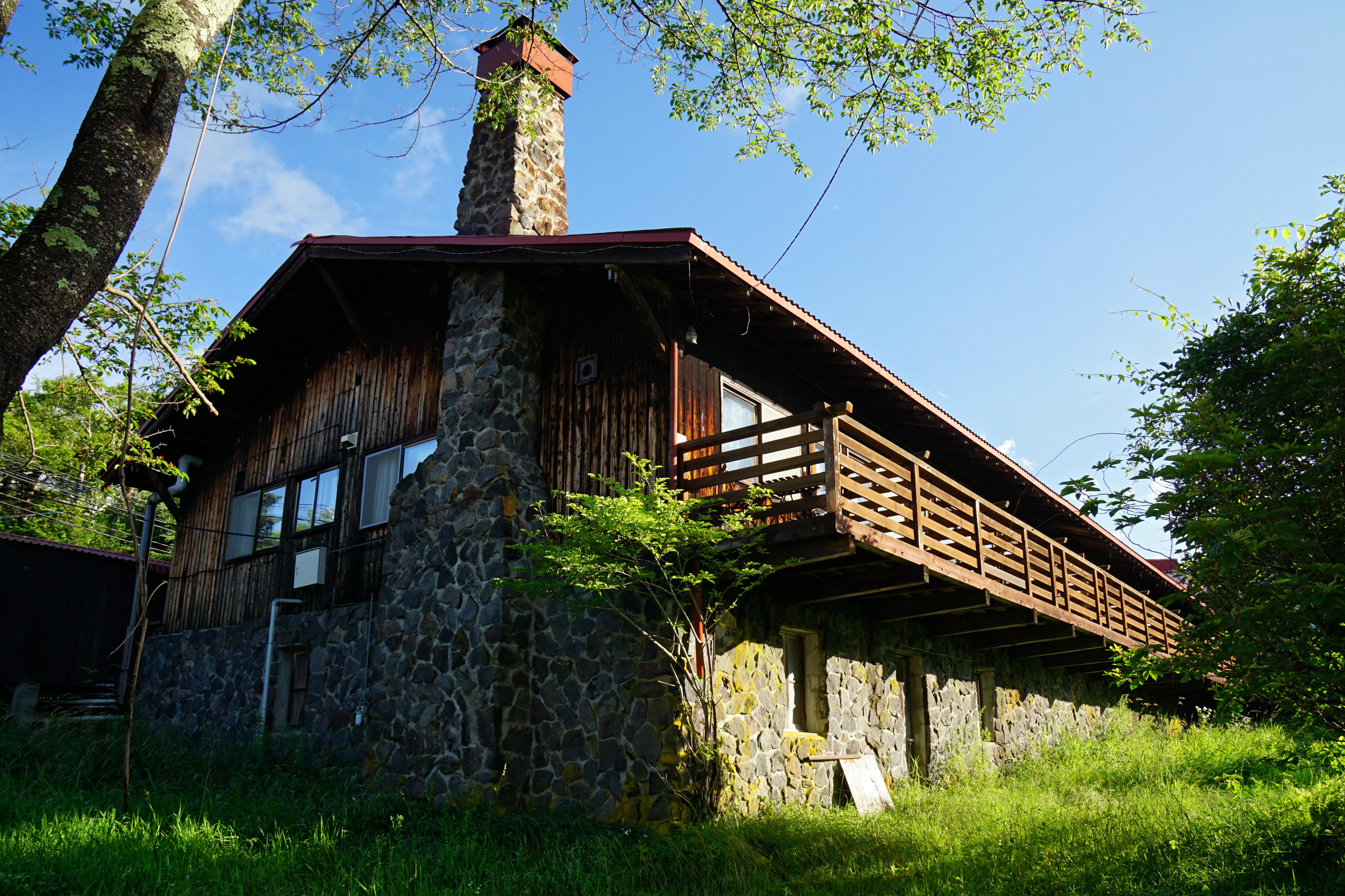 Seisen-ryo in Hokuto, Yamanashi prefecture, Japan.